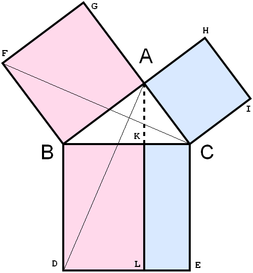 Illustration to Euclid's proof of the Pythagorean theorem, including less important labels and lines.